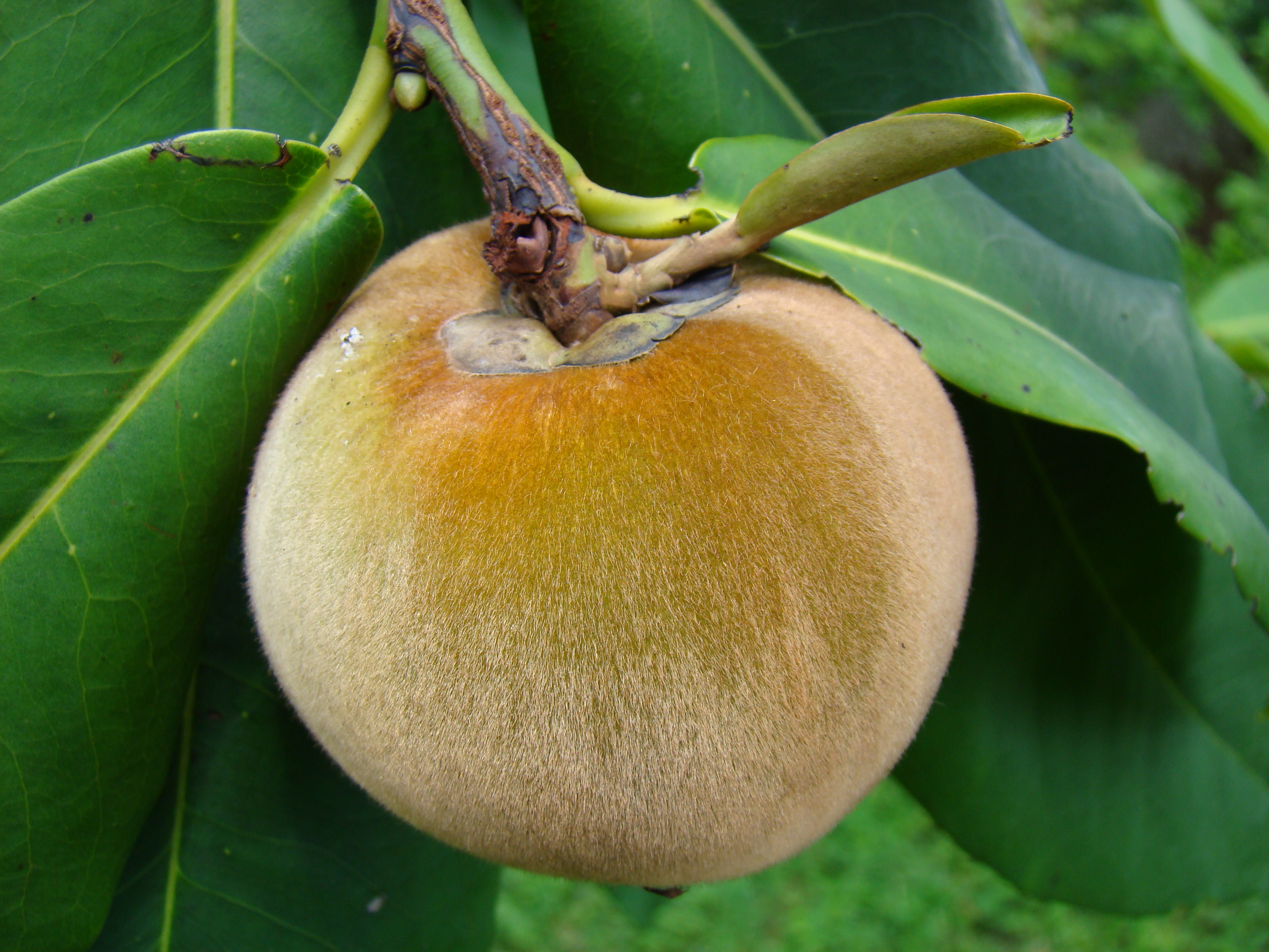 Velvet Apple aka Mabolo display at the Redland Summer Fruit Festival, Fruit & Spice Park, Homestead, Florida on 21st June, 2008. The Scientific Name had been changed from Diospyros discolor to Diospyros blancoi.